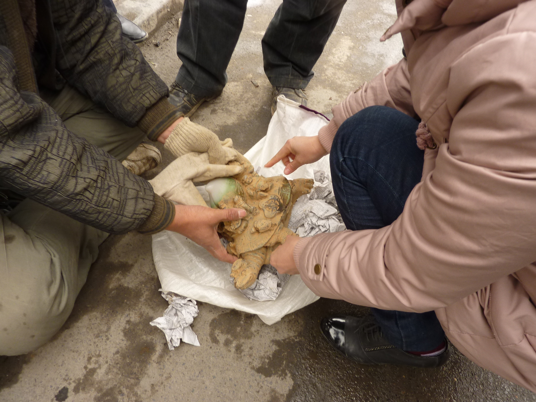 People gathered around a street fortune-teller (?) in Wuhan, using a clay statue of a turtle - with a magic peach and immortals on its back - as a prop.